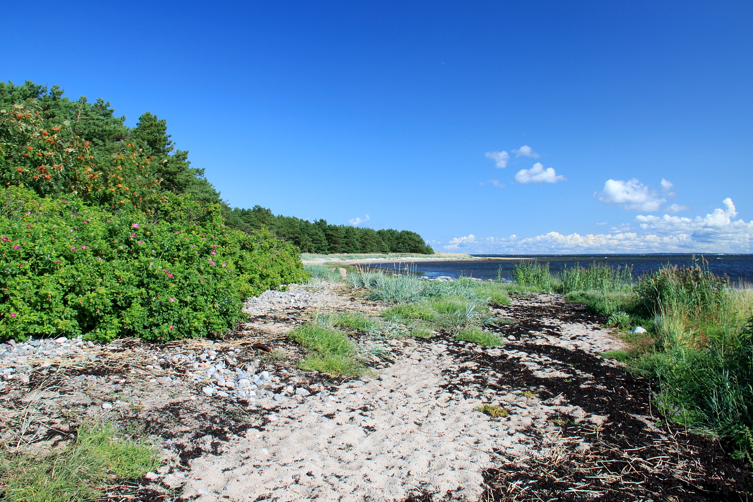 Island of Naissaar, southern coast.